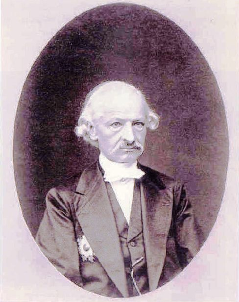 Gustave Emile Boissonade de Fontarabie (7 June 1825 – 27 June 1910) was a French legal scholar, responsible for drafting much of Japan's civil code during the Meiji Era, and honored as one of the founders of modern Japan's legal system.